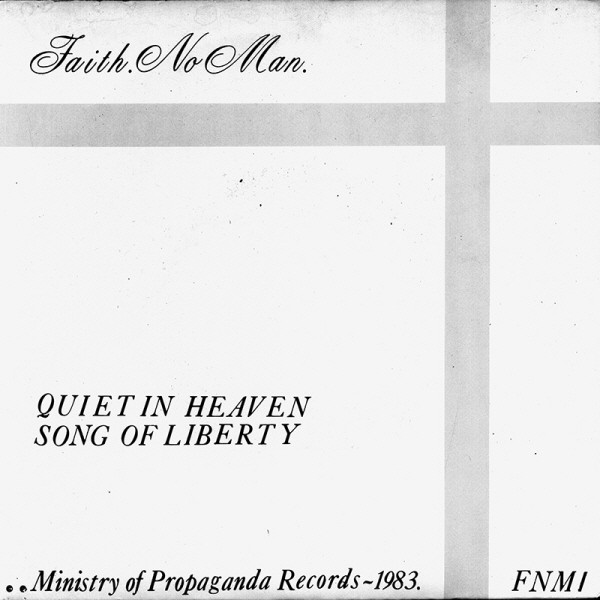 Back cover of "Quiet in Heaven/Song of Liberty" by Faith No Man; US single release. Seen in the image are the track listing, the copyright notice at the bottom, and catalogue number "FNM1" at the lower-right corner